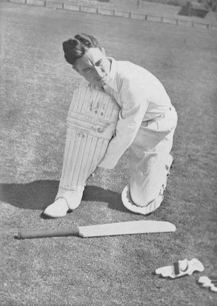 England Cricketer Denis Compton putting on his pads